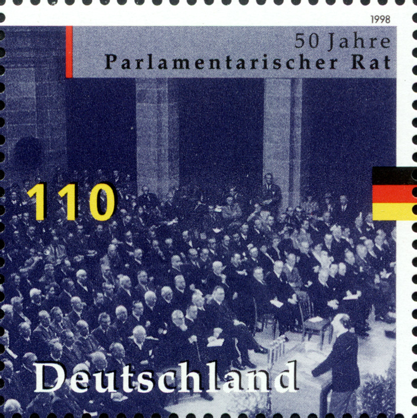 Stamp from Deutsche Post AG from 1998, 50th anniversary Parlamentarischer Rat